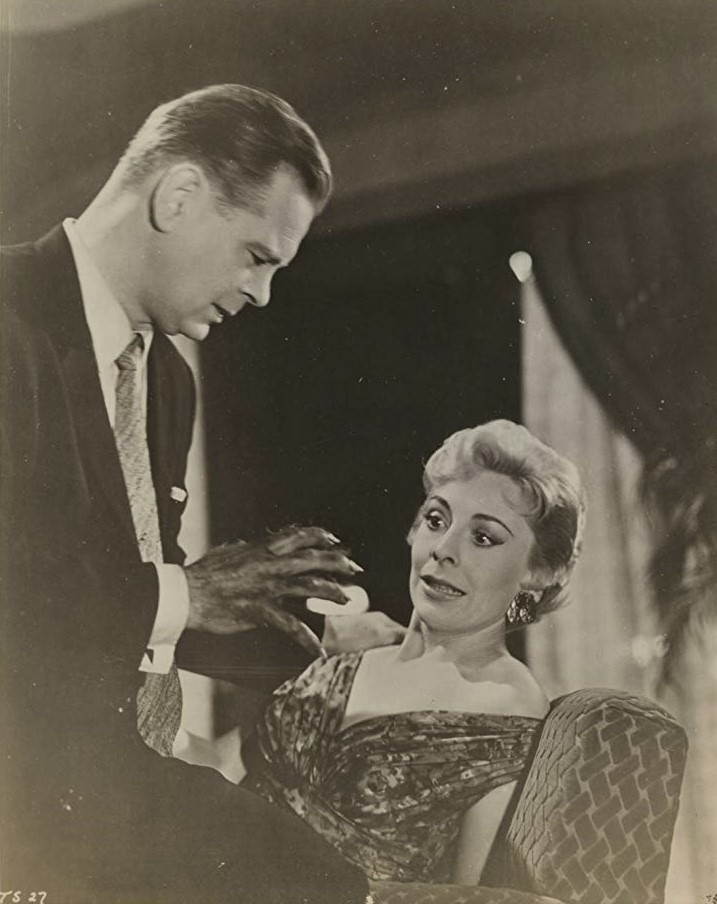 Peter Dyneley & Jane Hilton in The Manster - publicity still (cropped)